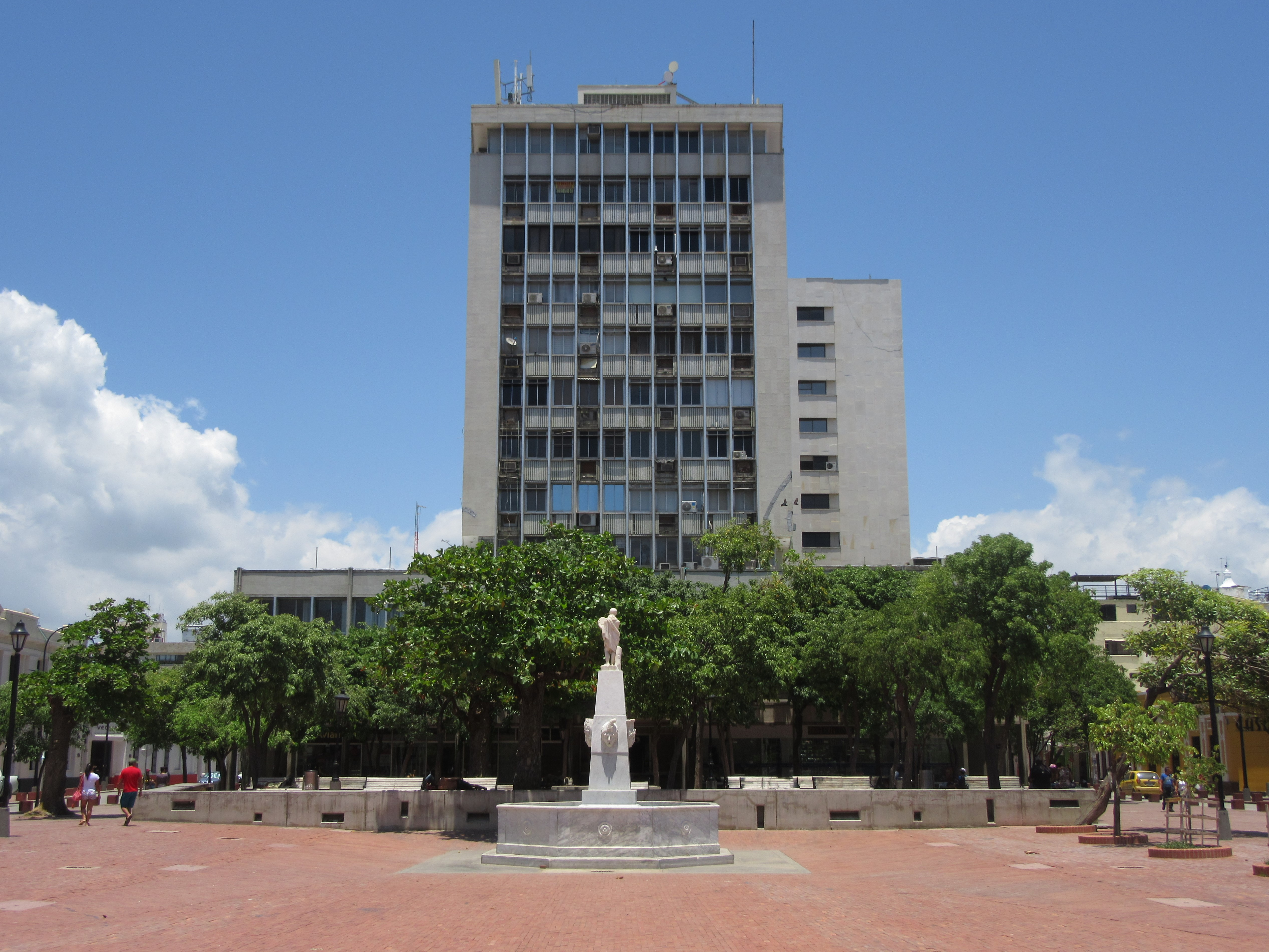 Santa Marta